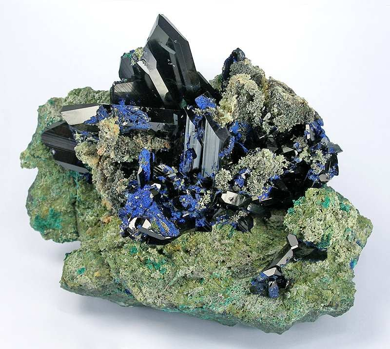 Azurite Locality: Tsumeb Mine (Tsumcorp Mine), Tsumeb, Otjikoto (Oshikoto) Region, Namibia (Locality at ) Size: 16.7 x 13.2 x 10.5 cm. An incredible large specimen the size of a football, with dramatic, vertically-pointing azurite of the highest quality form and color surmounting the matrix of malachite-stained rock. The two largest vertical crystals are 2 inches, as seen from the back, and about 2/3 of that height is visible from the front view. The crystals have mirror-like lustre and sharpness as if they had been carved. All major crystals, about half a dozen, are terminated either fully or with minute contacts where they had adjoined matrix. One crystal is repaired, but so cleanly you could not tell unless you go looking for it. The overall aesthetic look of this is like a blue flower unfolding from the green host matrix, and it is one of the more dramatic larger specimens I have seen from Tsumeb. Exchanged from the Smithsonian Institution collection about a year ago, this piece was once obtained by purchase using the Roebling Fund endowment.